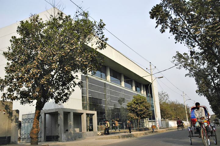 Author : Hassan Bipul